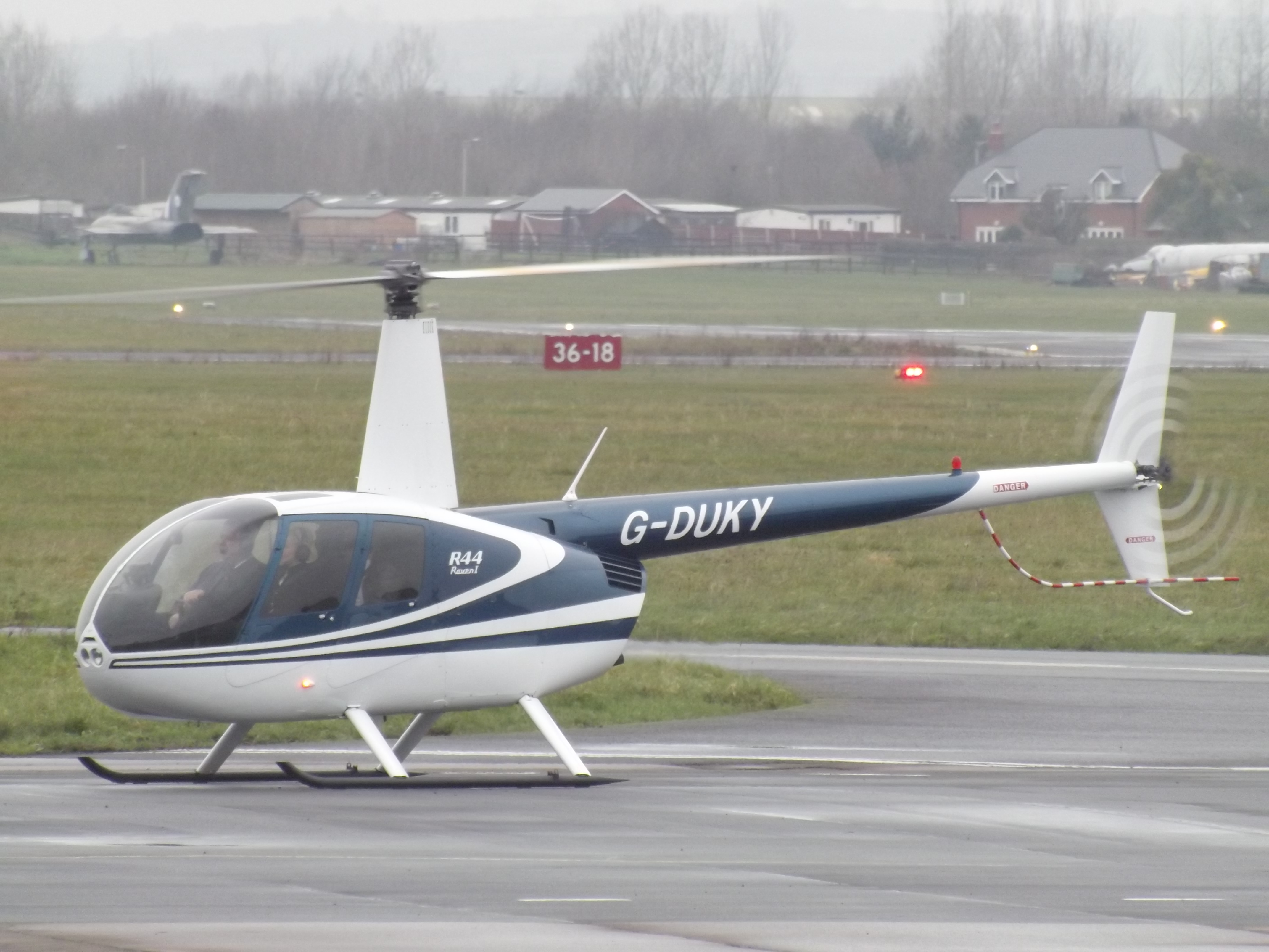 At Gloucestershire Airport.